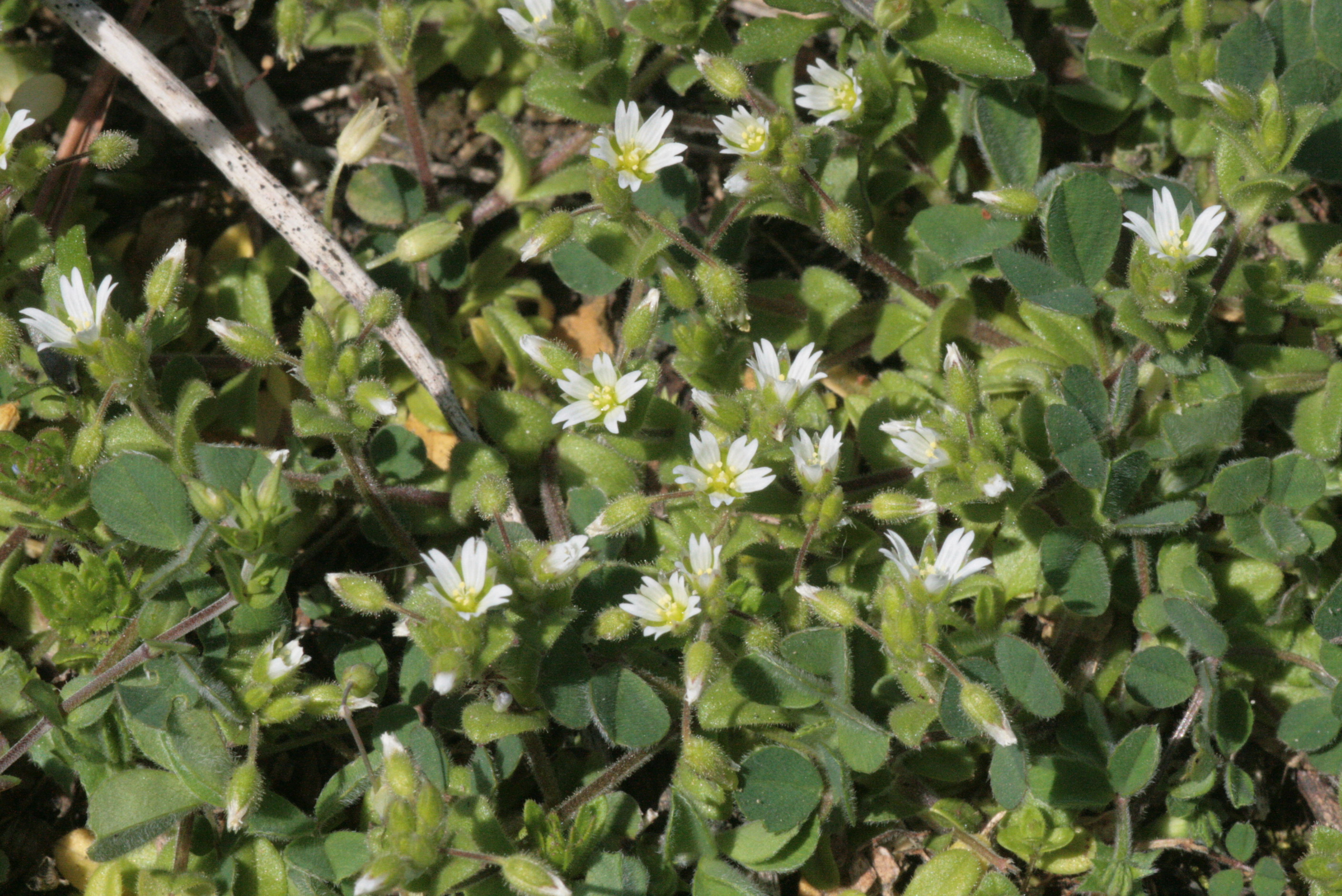 Cerastium semidecandrum